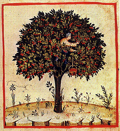 Nature: Cold at the end of the first degree, humid in the first. Optimum: The pulpy ones with a thin skin. Usefulness: Good for phlegmatic stomachs burdened with superfluities. Dangers: They are digested slowly. Neutralization of the Dangers: By eating them on an empty stomach. From the Theatrum of Casanatense